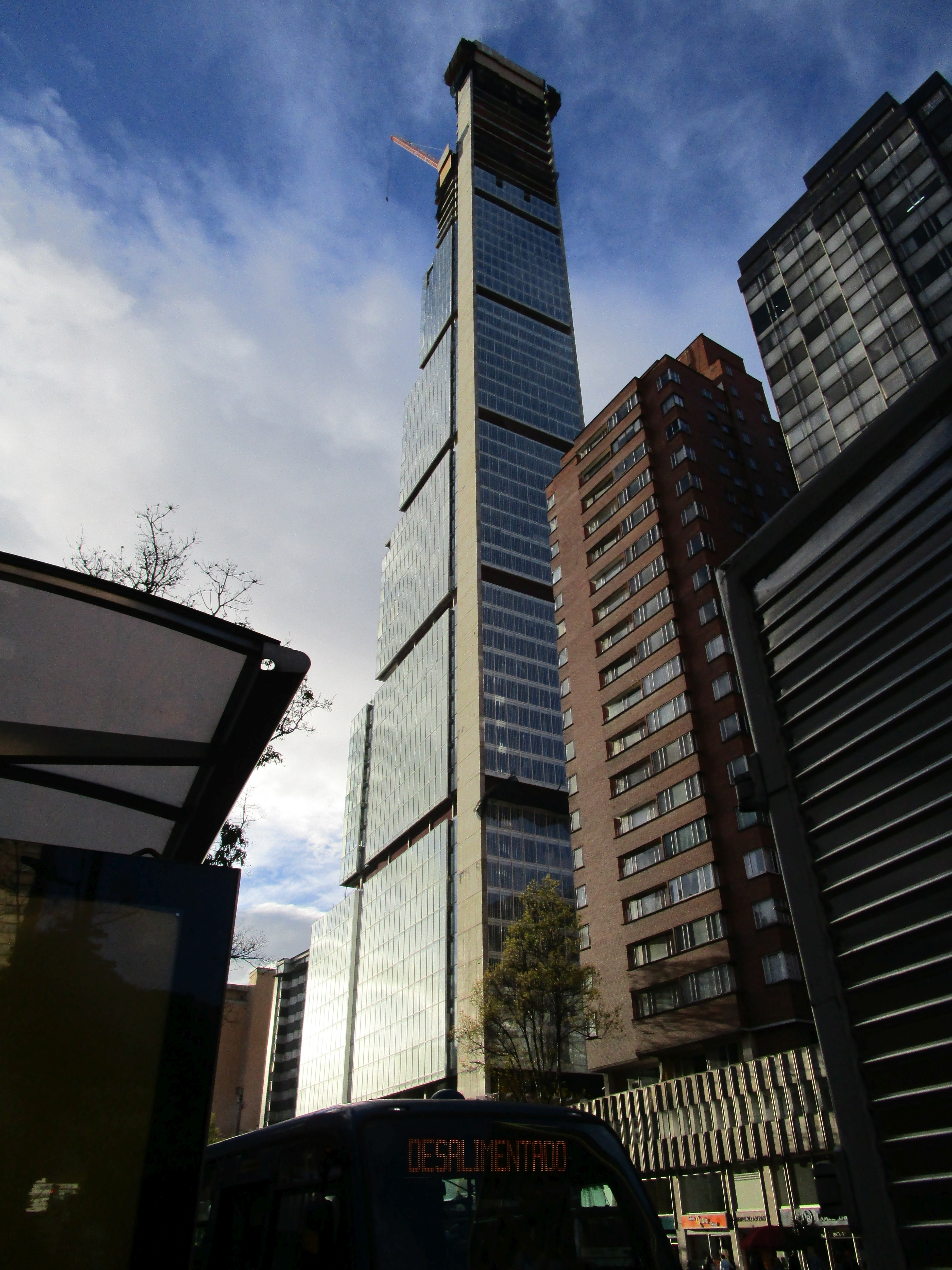 Construction of BD Bacatá as seen from the South East on Calle 19